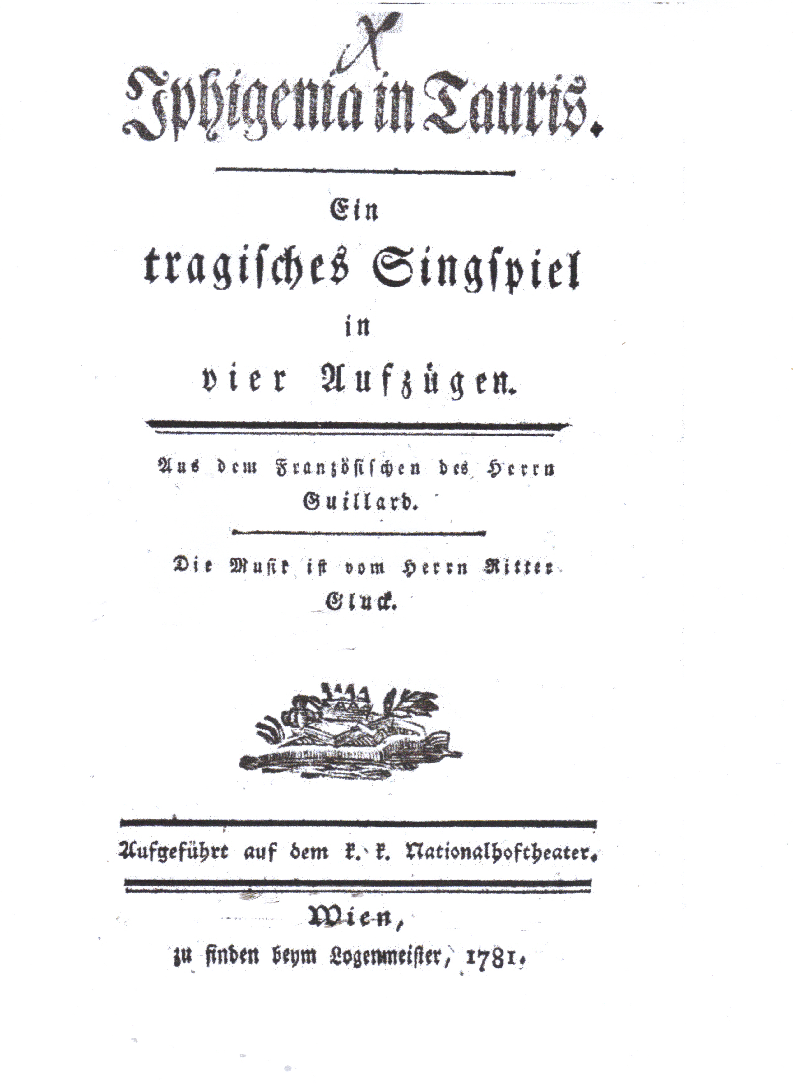 Title page of the original libretto of the German version of Iphigénie en Tauride by Christoph Willibald Gluck